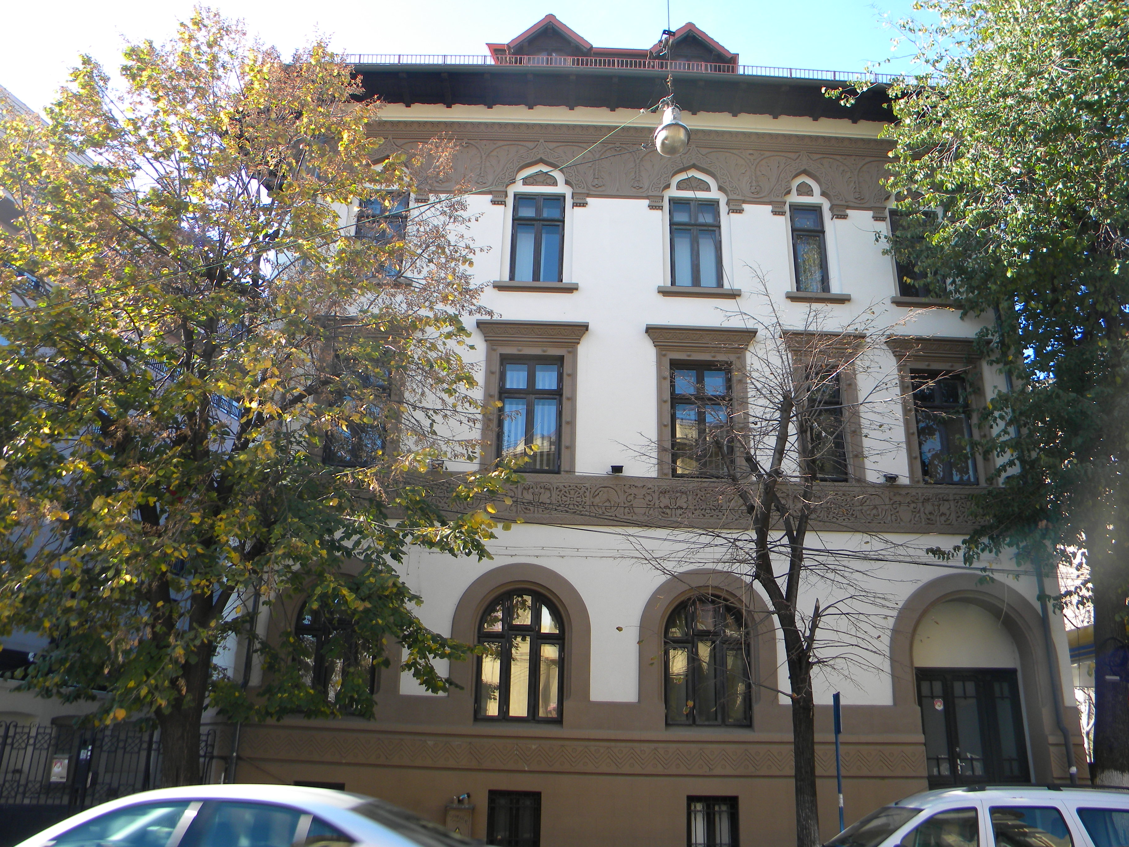 Bucuresti, Romania, Str. Mantuleasa nr. 33 (Casa Ioanitescu), sect. 2, (B-II-m-B-20996)